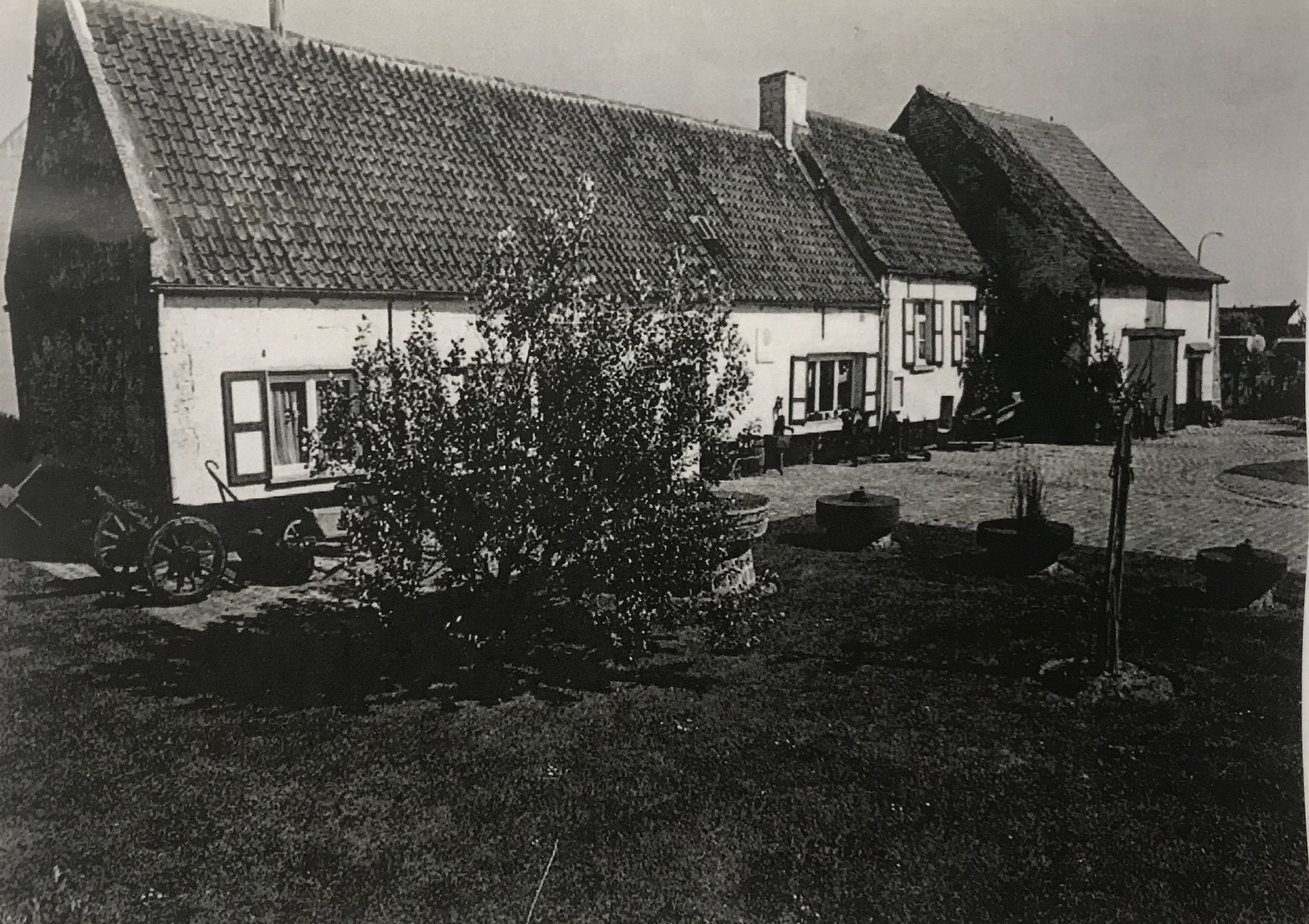 Turkeyenhof Bredene